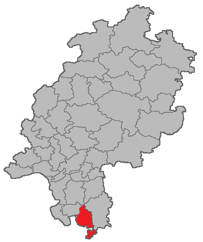 Map of the district court Fürth (Hesse) in Hesse